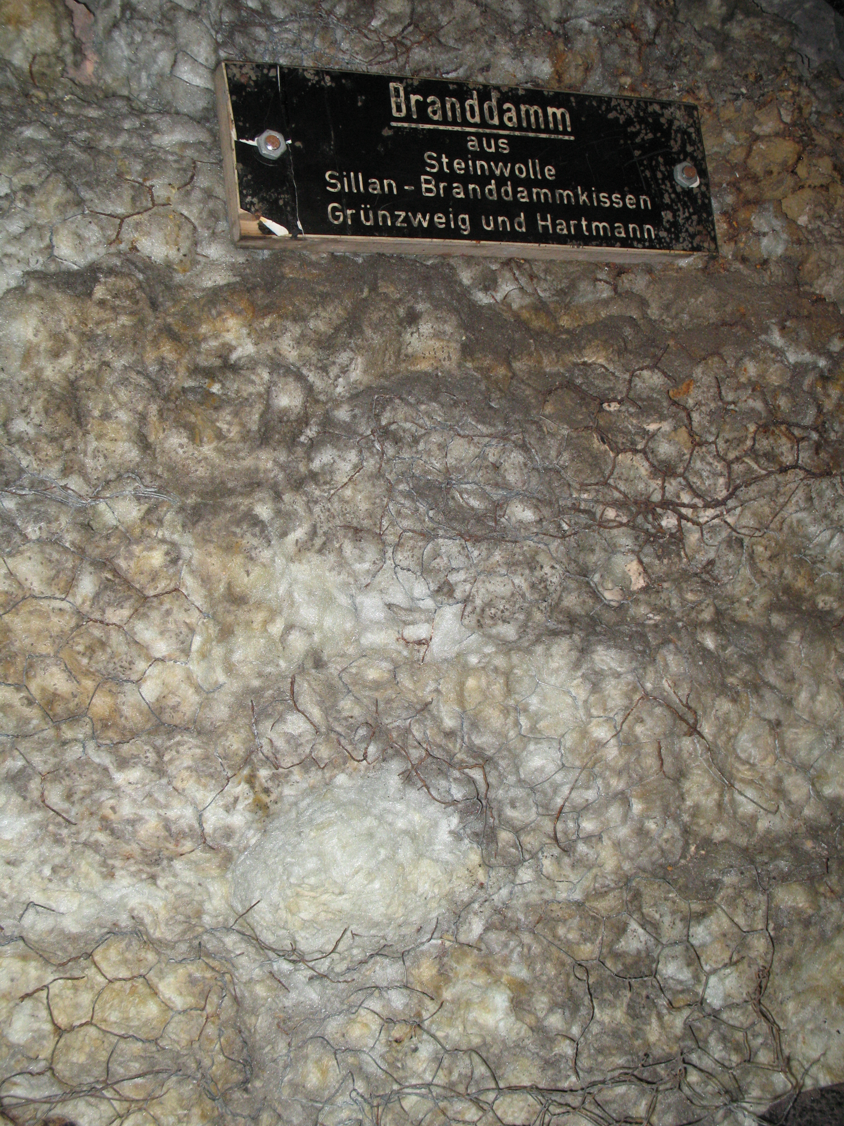 German Mining Museum in Bochum